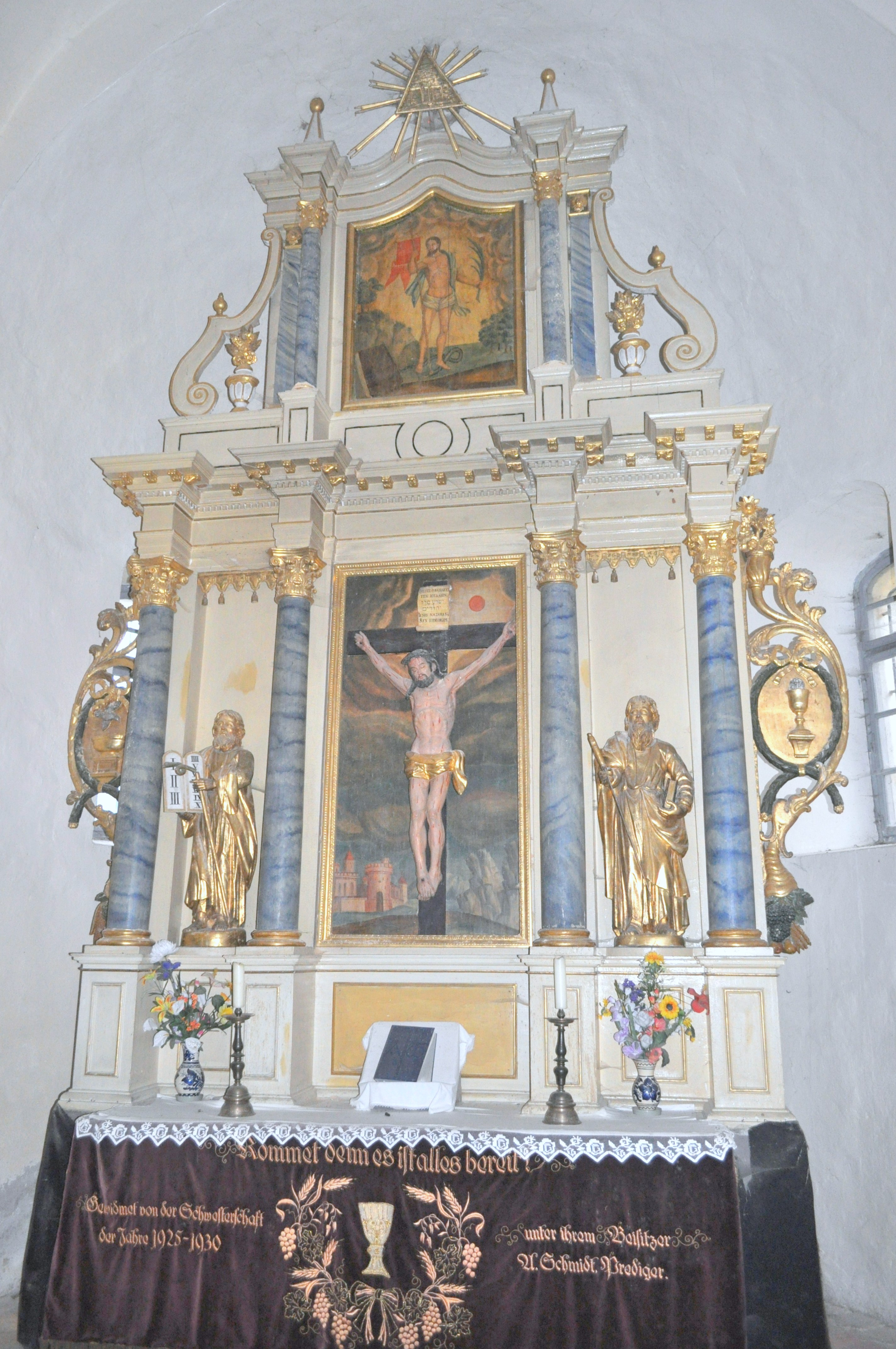 Saxon fortified church in Chirpăr, Sibiu county